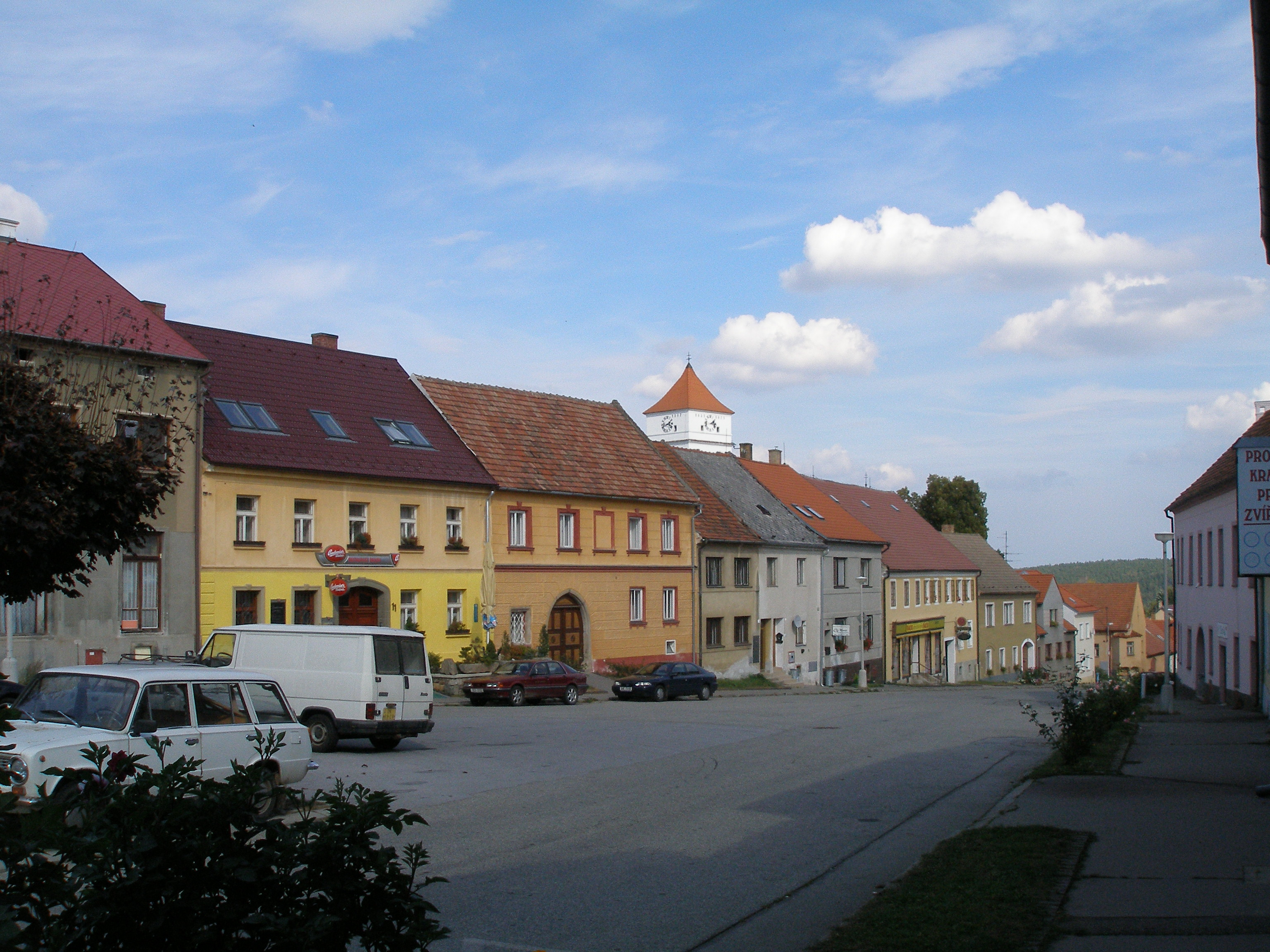 Velešín - the Eastern part of the Northern side of the square